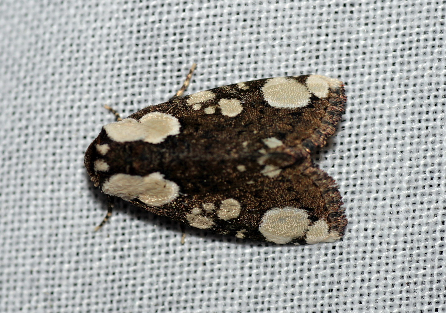 Borneo. Crocker Range National Park. April 2009